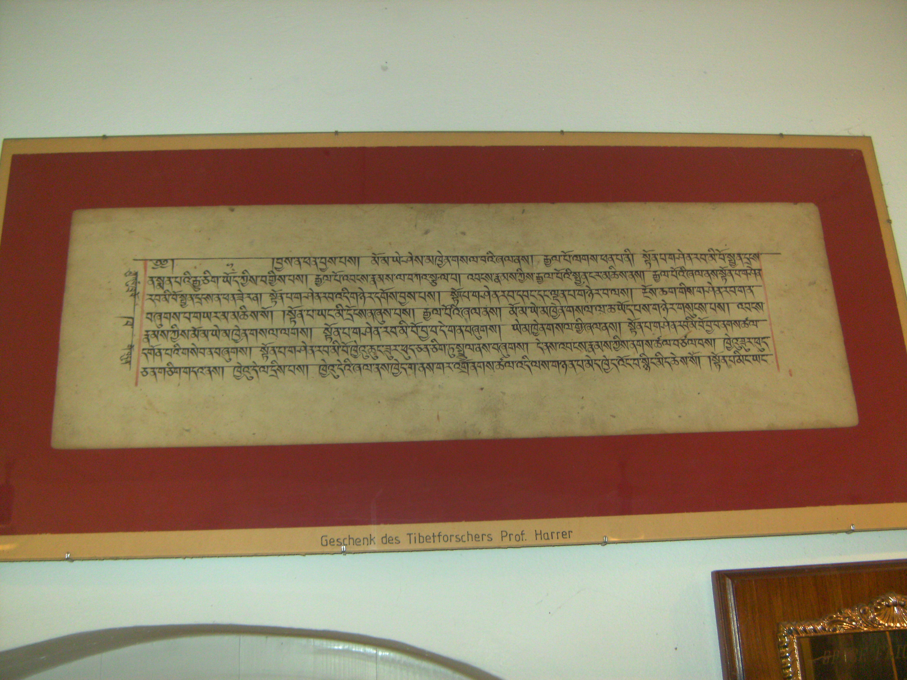 Text written in Sankrit, in which Tibetians claim contact with extraterrestrical intelligent life on display in Hermann-Oberth-Museum, Feucht, Germany